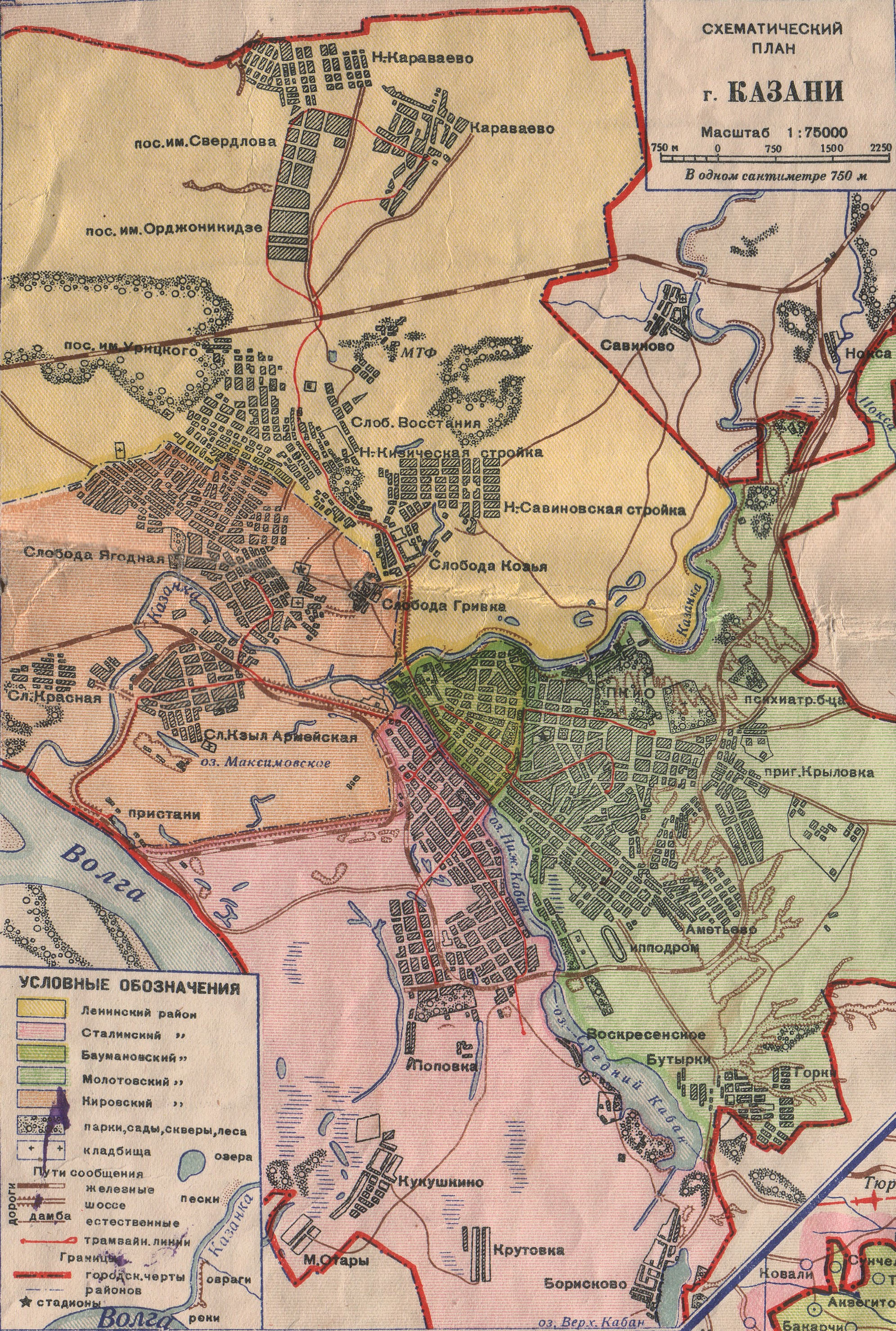 Schematic plan of Kazan, 1940 (Fragment of the Administrative Map of Tatar ASSR)